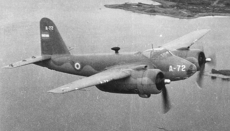 A I.Ae. 24 Calquin of the Fuerza Aérea Argentina in flight during the late 1940s